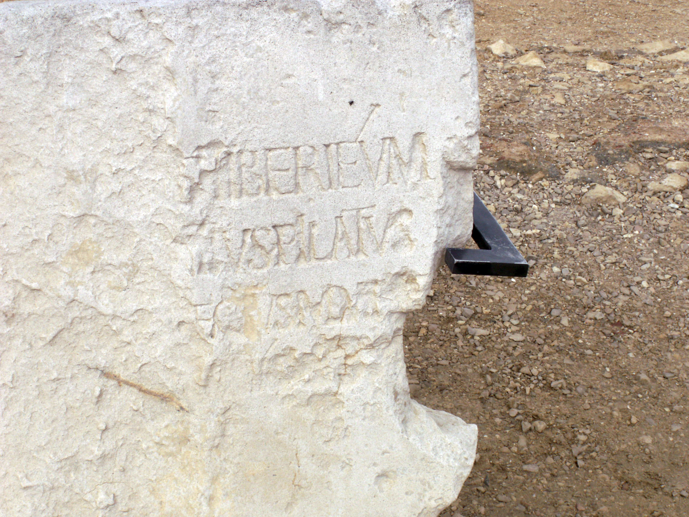 The "Pilate Inscription" from Caesarea Maritima, Israel The inscription reads: This building - Tiberium By Pontius Pilatus Prefect of Judea Has been built